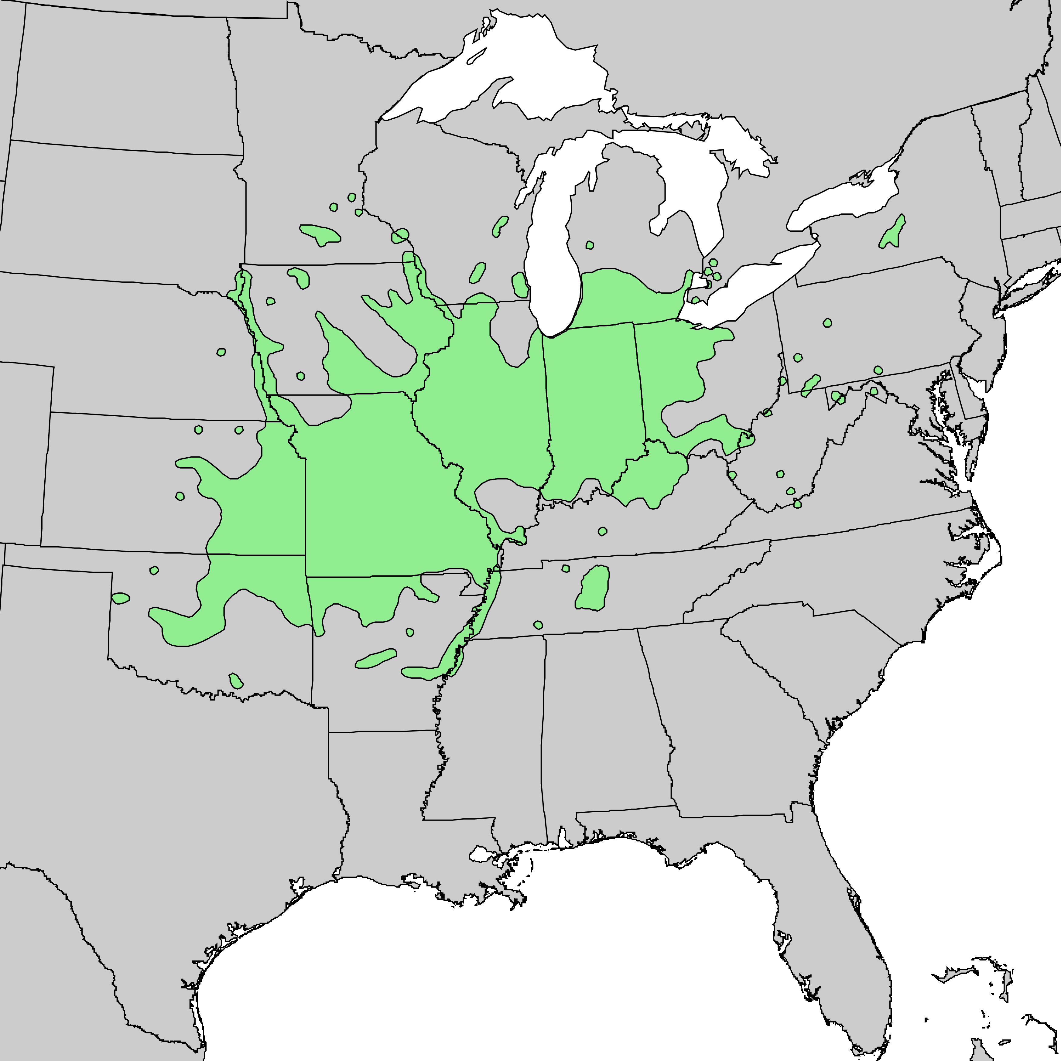 Natural distribution map for Gymnocladus dioicus (coffeetree)